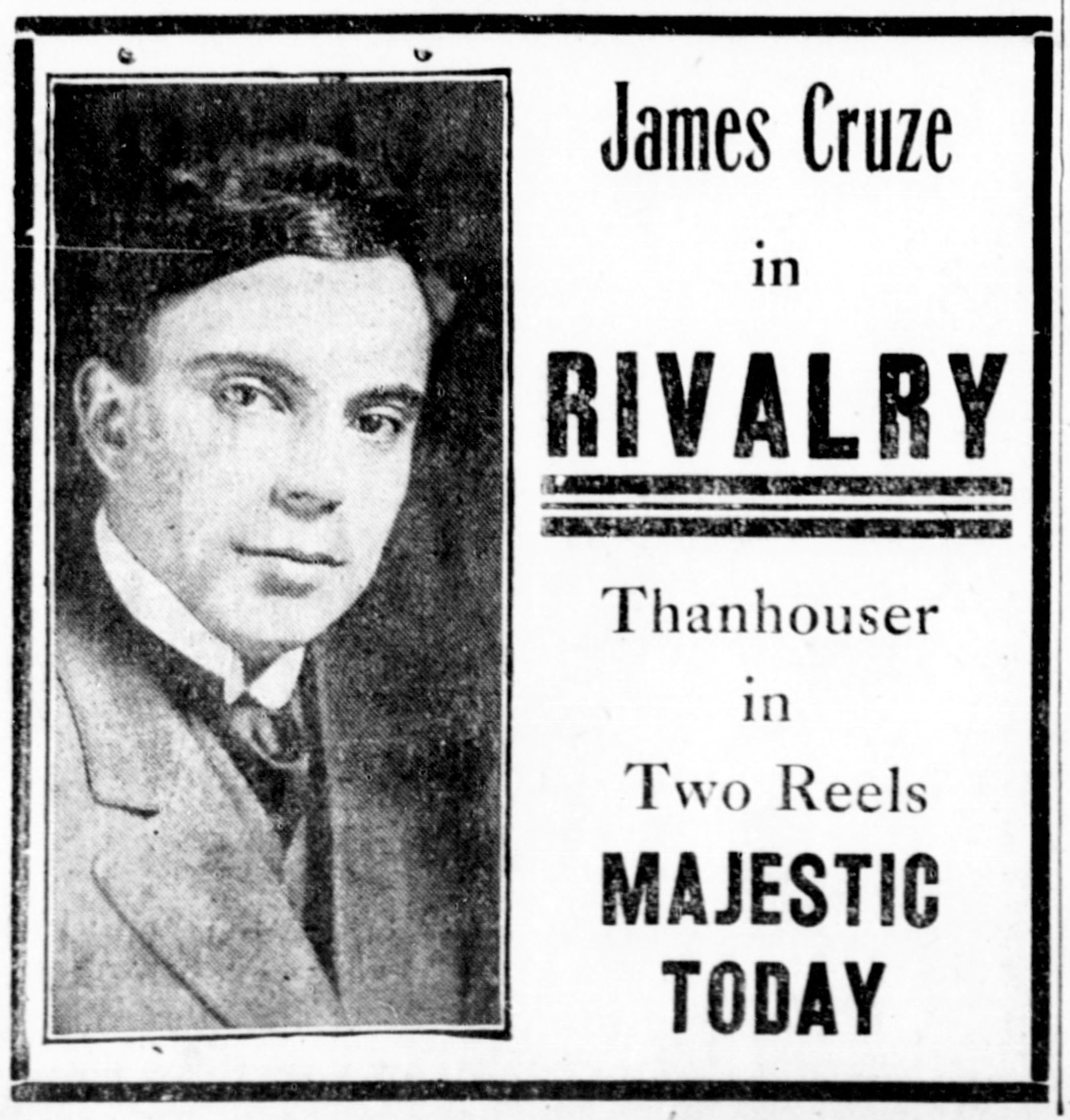 James Cruze in a newspaper advertisement for the film Rivalry (1914).